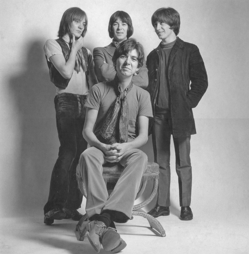 Image of the Small Faces in 1968, from left to right: Marriott, McLagan, Jones. Seated: Lane